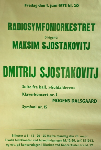 Concert poster: Sjostakovitsj 1973